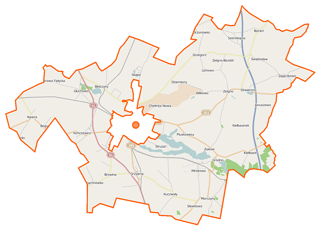 Map of Gmina Chełmża, Poland This map of Chełmża (gmina wiejska) was created from OpenStreetMap project data, collected by the community. This map may be incomplete, and may contain errors. Don't rely solely on it for navigation. Border coordinates53.266218.4660←↕→18.810353.1186